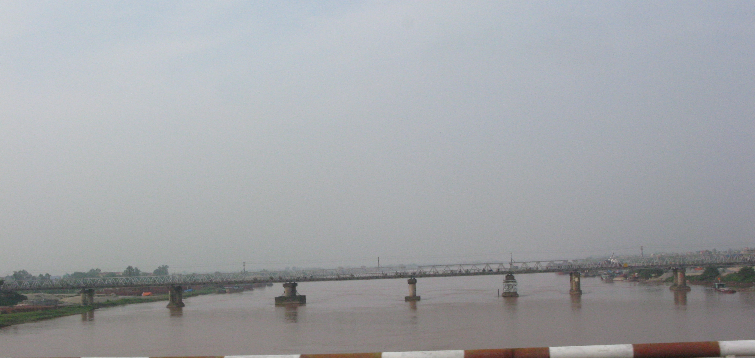 Thái Bình River viewed from the new Phú Lương Bridge in the National Road No. 5, Hải Dương City, Viet Nam. The bridge shown in this pictures is the old Phu Luong Bridge.